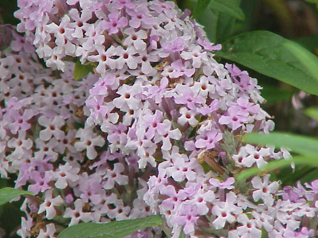 Species: Buddleia alterifolia Family: ' Image No. 1